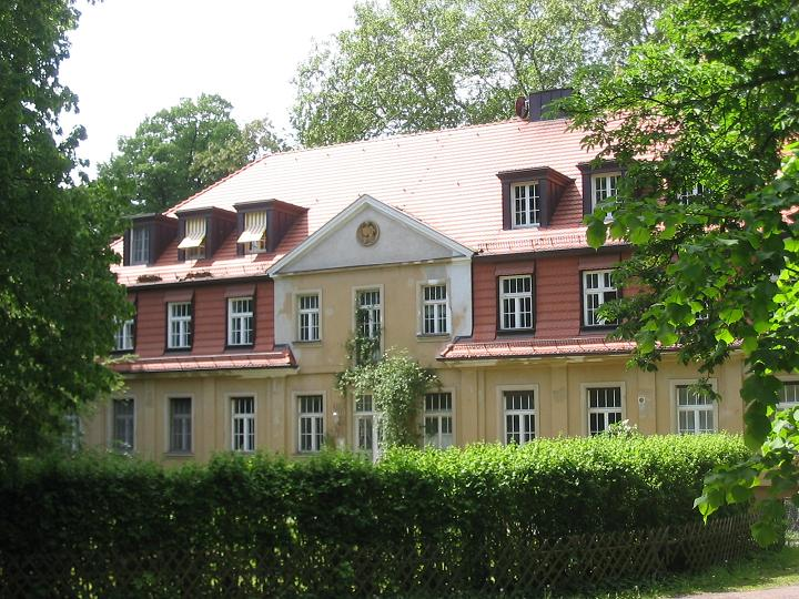 Manor house in Jühnsdorf, built in 1824 by the family von Knesebeck. The village Jühnsdorf is a part of the municipality Blankenfelde-Mahlow in the district Teltow-Fläming, state Brandenburg, Germany.